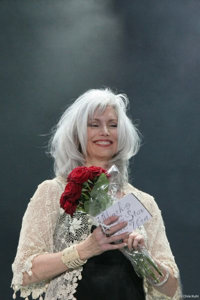 Emmylou Harris, playing in Ahoy, Rotterdam, The Netherlands.